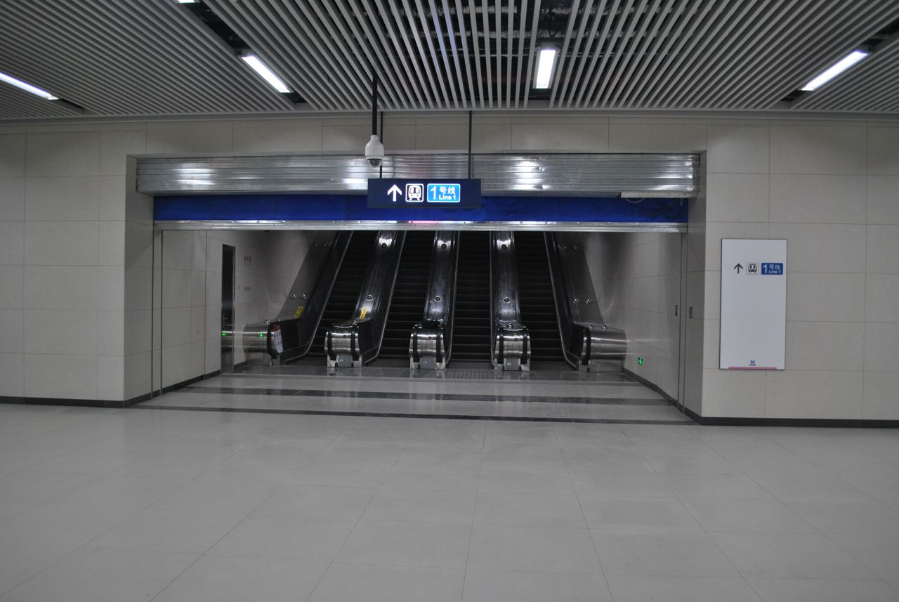 Xunlimen Station